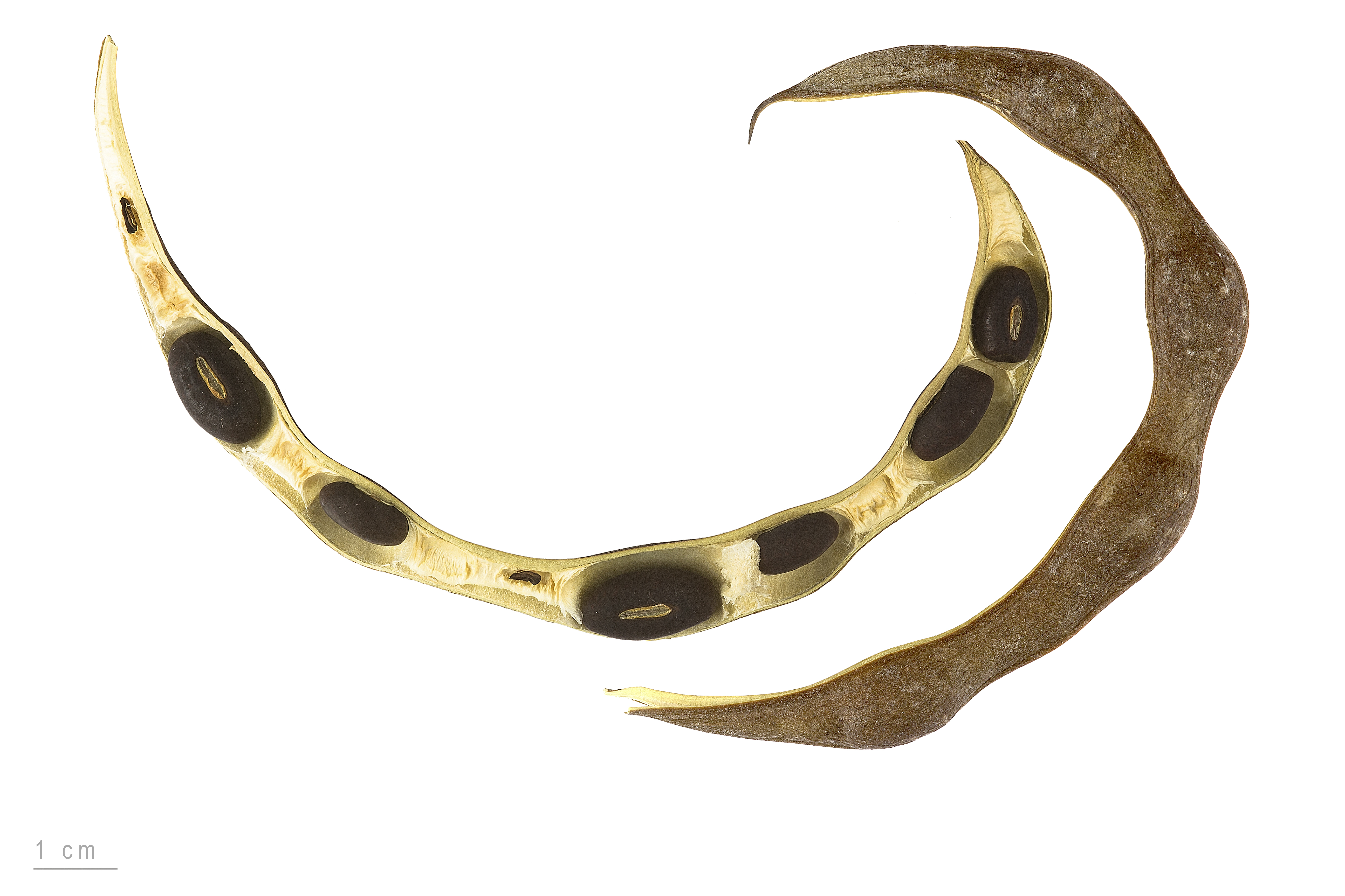 cockspur coral tree, fruits and seeds